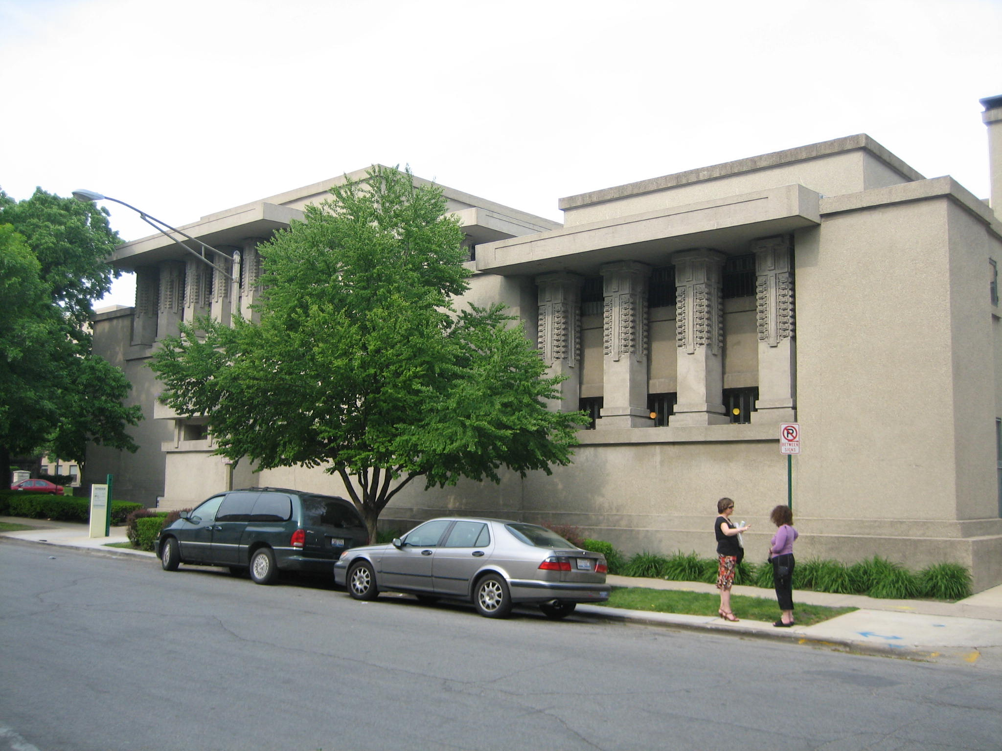 Unity Temple, designed by Frank Lloyd Wright. Oak Park, Illinois, National Historic Landmark.